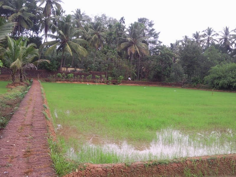 This paddy field situated at Madhur near Kasaragod of Kerala of Indian Union. Farmers then take paddy plants to plant in other fields in that area